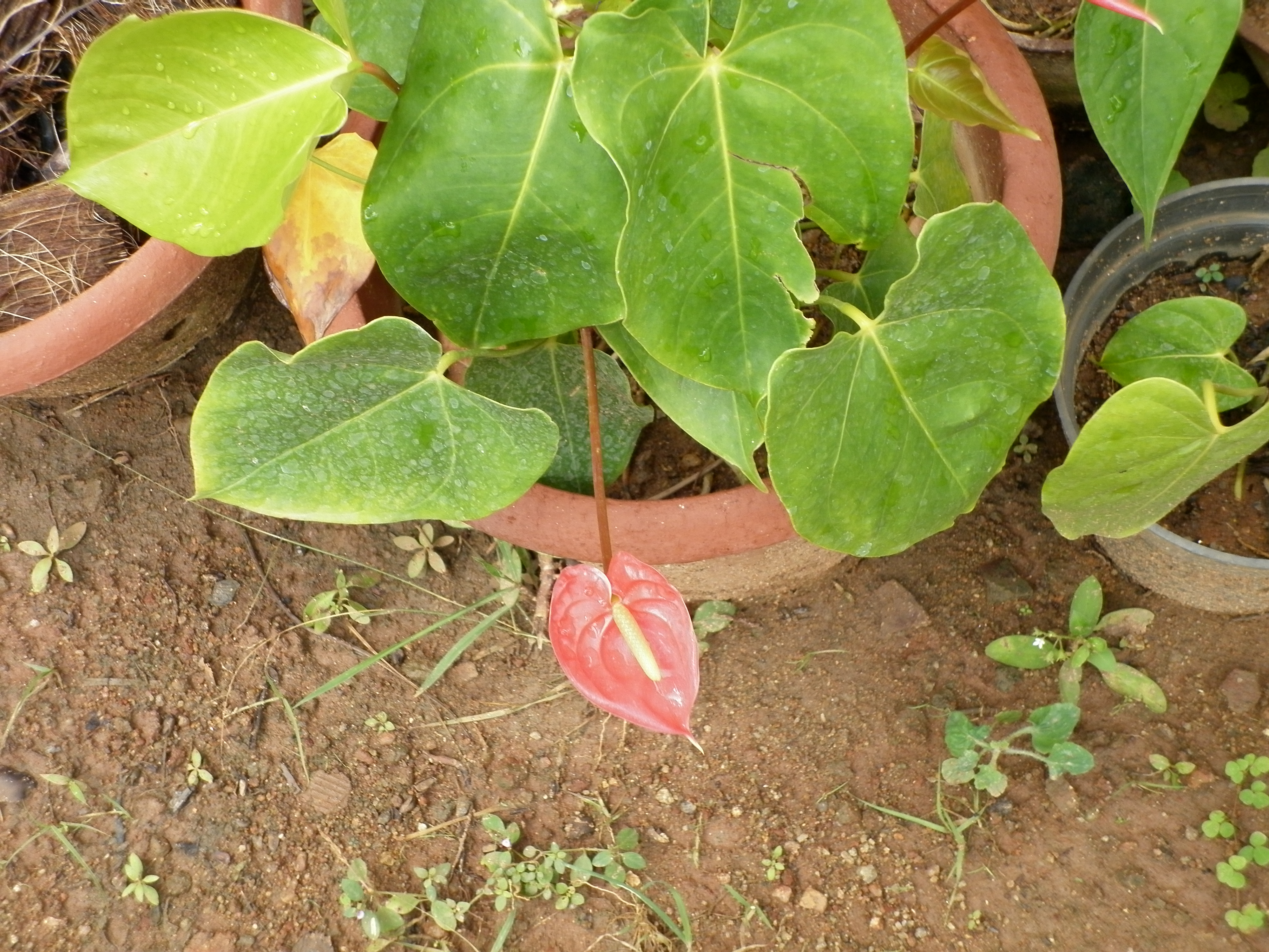 found this at Floriculture research station, kanyakumari,Tamilnadu, India